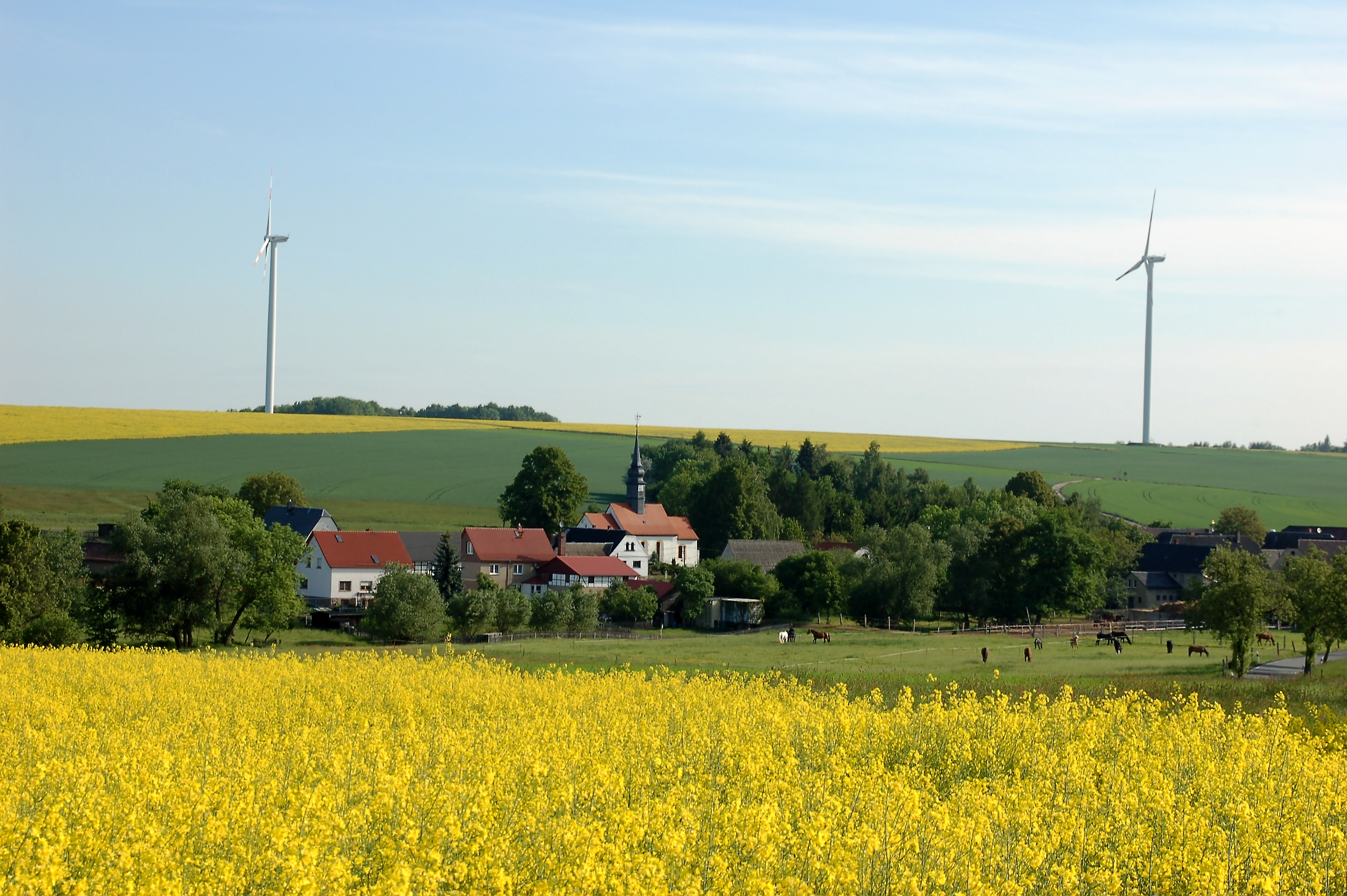 View over Meerane-Waldsachsen near Zwickau/Saxony